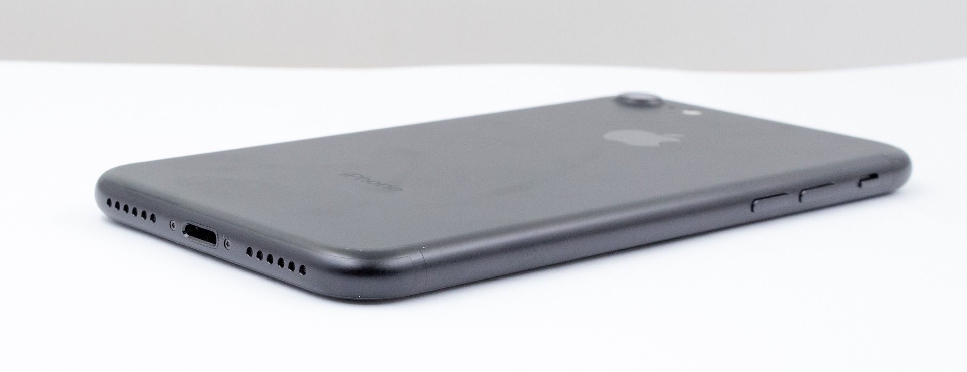 iPhone 7